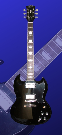 A Tokai guitar, a "Gibson SG" clone.